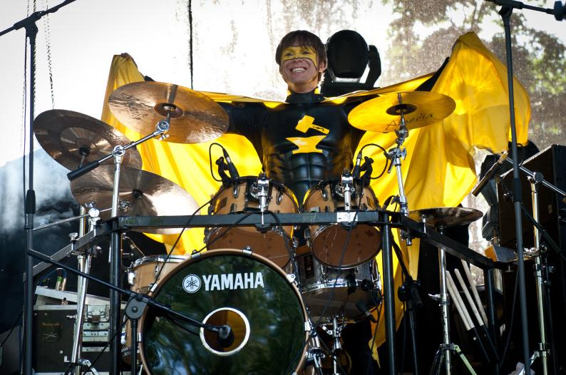 Baron van der Blast, Grailknights